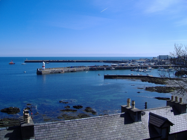 View from Bay View Road, Port St Mary Looking down to the harbour and breakwaters.